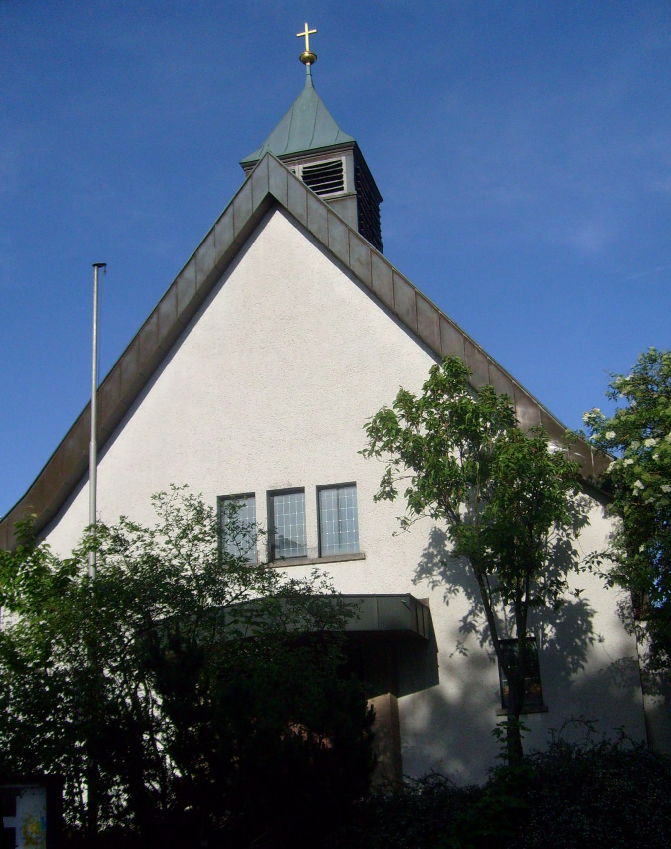 Trinity church in BFH-Kochendorf (not longer serviced)